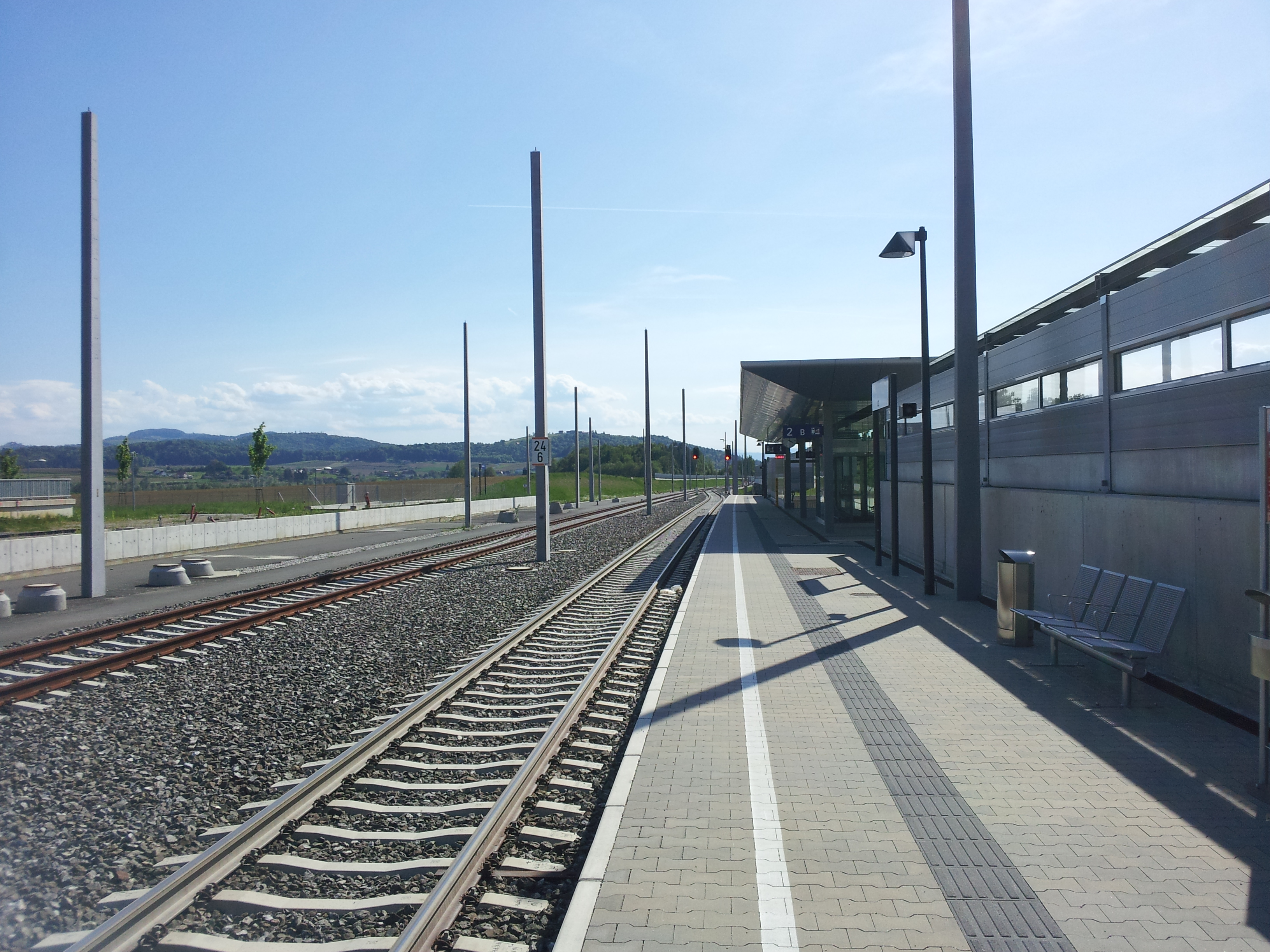 Hengsberg station.